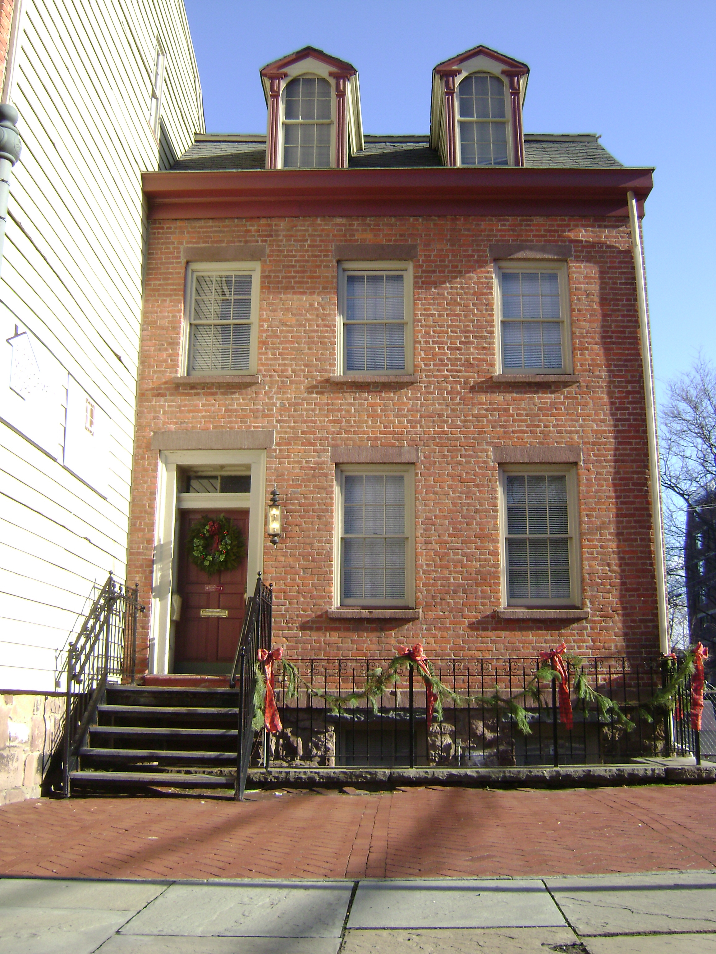 The southern facade of the two conjoined buildings that make up the Daniel Thompson and John Ryle Houses in Paterson, New Jersey is seen from Mill Street. The houses, which were built in 1830, are featured on the both the National and State Register of Historic Places.